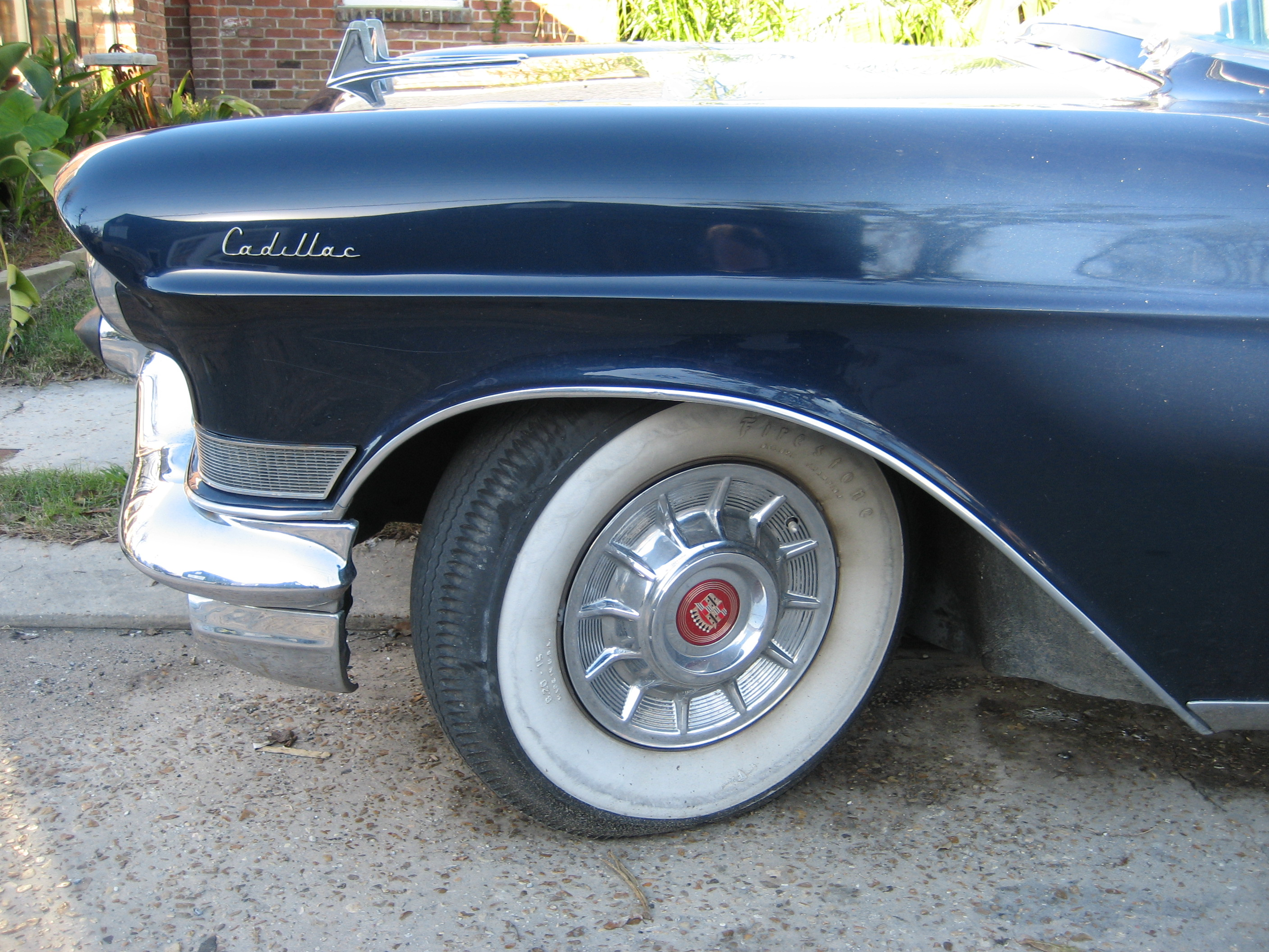 Wheel, 1957 Cadillac Series 57-6239(X) in Broadmoor section, New Orleans